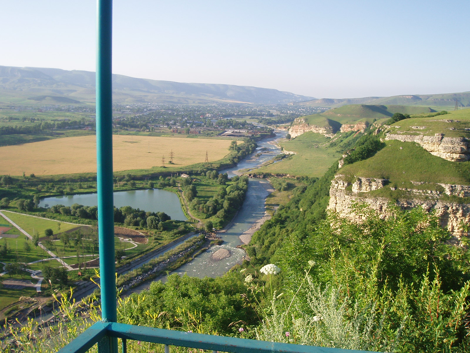 Khabez, view from the Adiyukh Tower